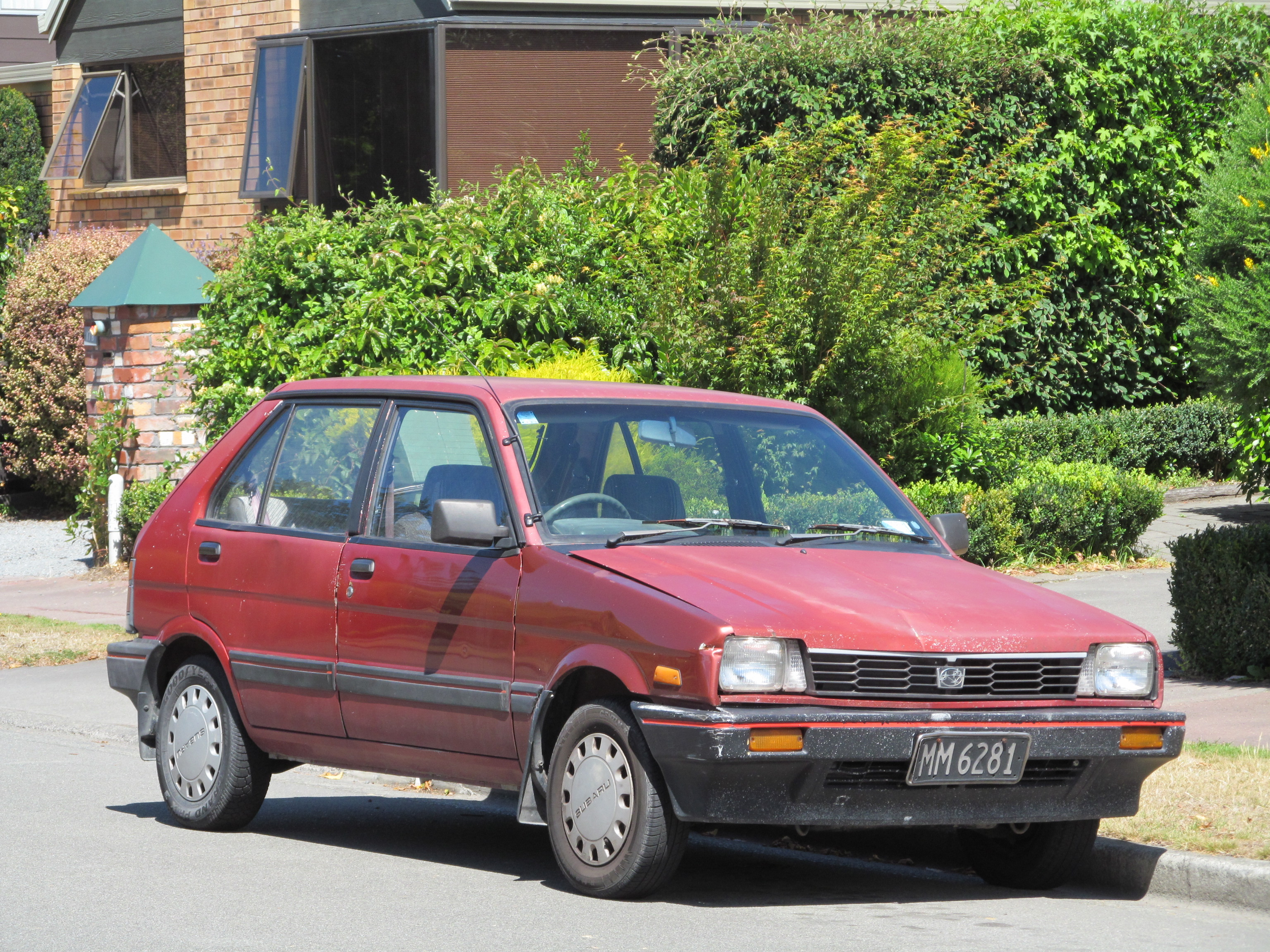 I've noticed these Justys are getting rarer by the day, so it seemed appropriate to snap this rather battered one while it's still around.